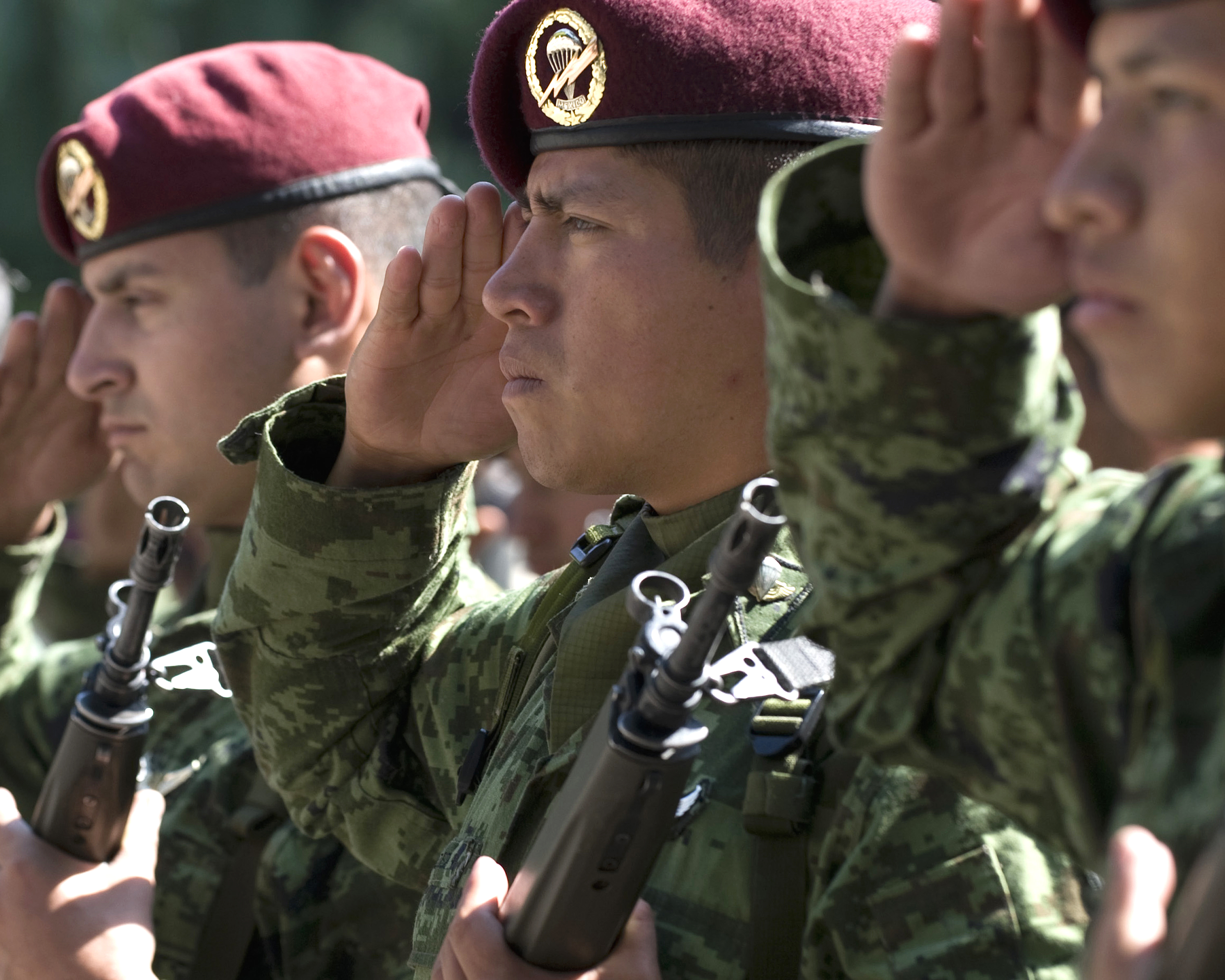 Mexican Parachutists members salute during a ceremony honoring the 201st Fighter Squadron at Chapultepec Park in Mexico City, Mexico.